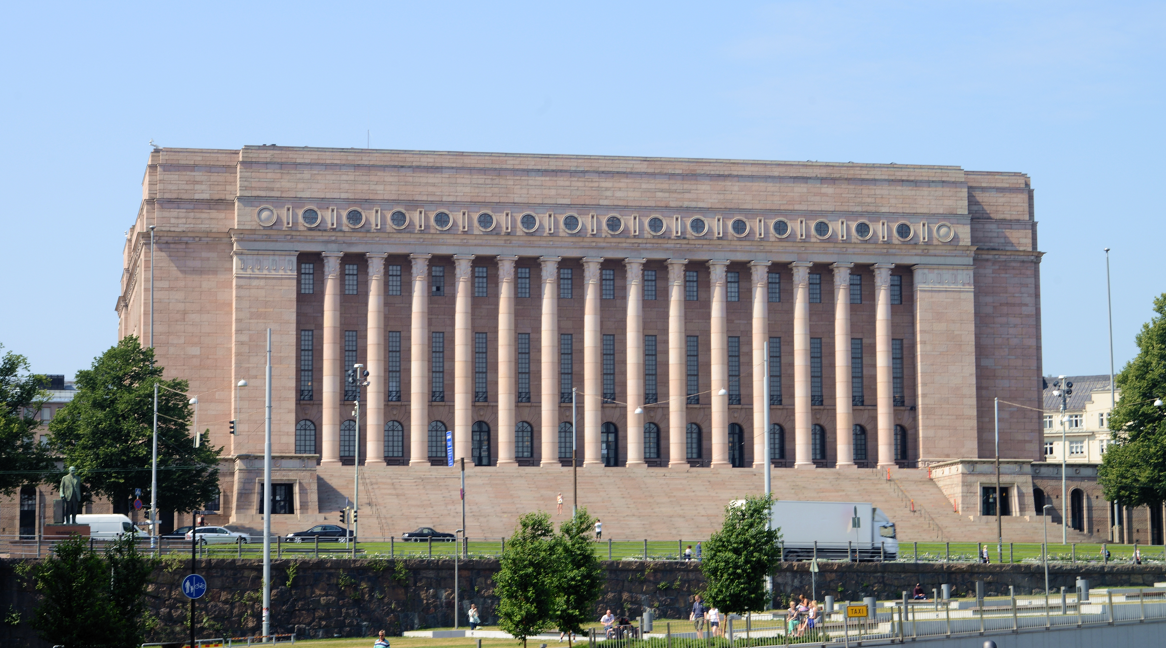 Parliament House, Helsinki